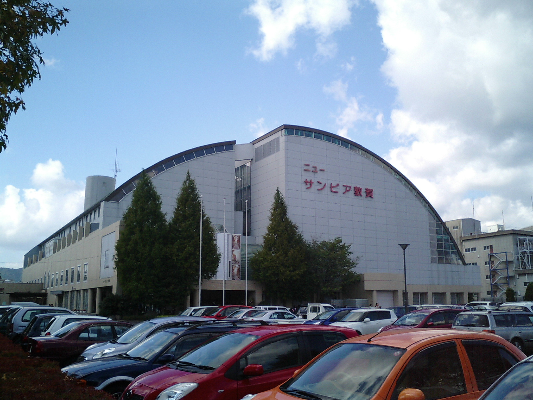 New Sunpia Tsuruga